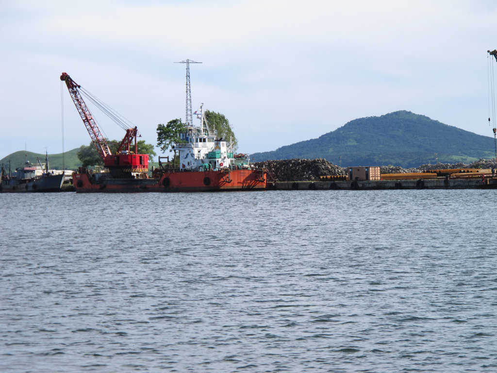 Pier 3 construction site of Rajin Port, Rason City, the Democratic People's Republic of Korea